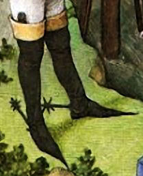 Высокие пулены со шпорами для верховой езды. Фрагмент миниатюры Бартелеми д'Эйка из рукописи "Книги любви" Рене Анжуйского, 1460—67 гг.